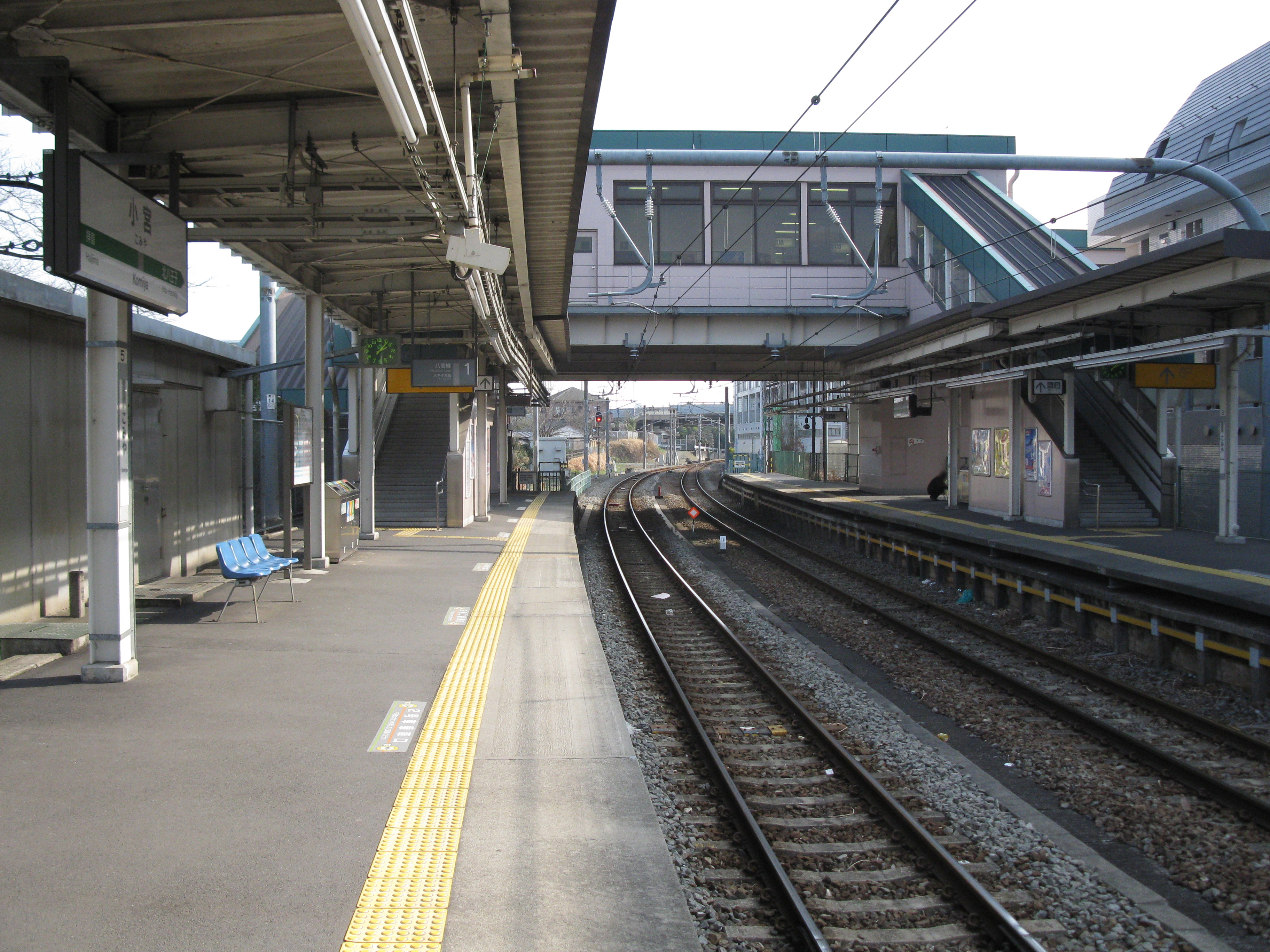 Komiya Station platform (East Japan Railway Hachikō Line)